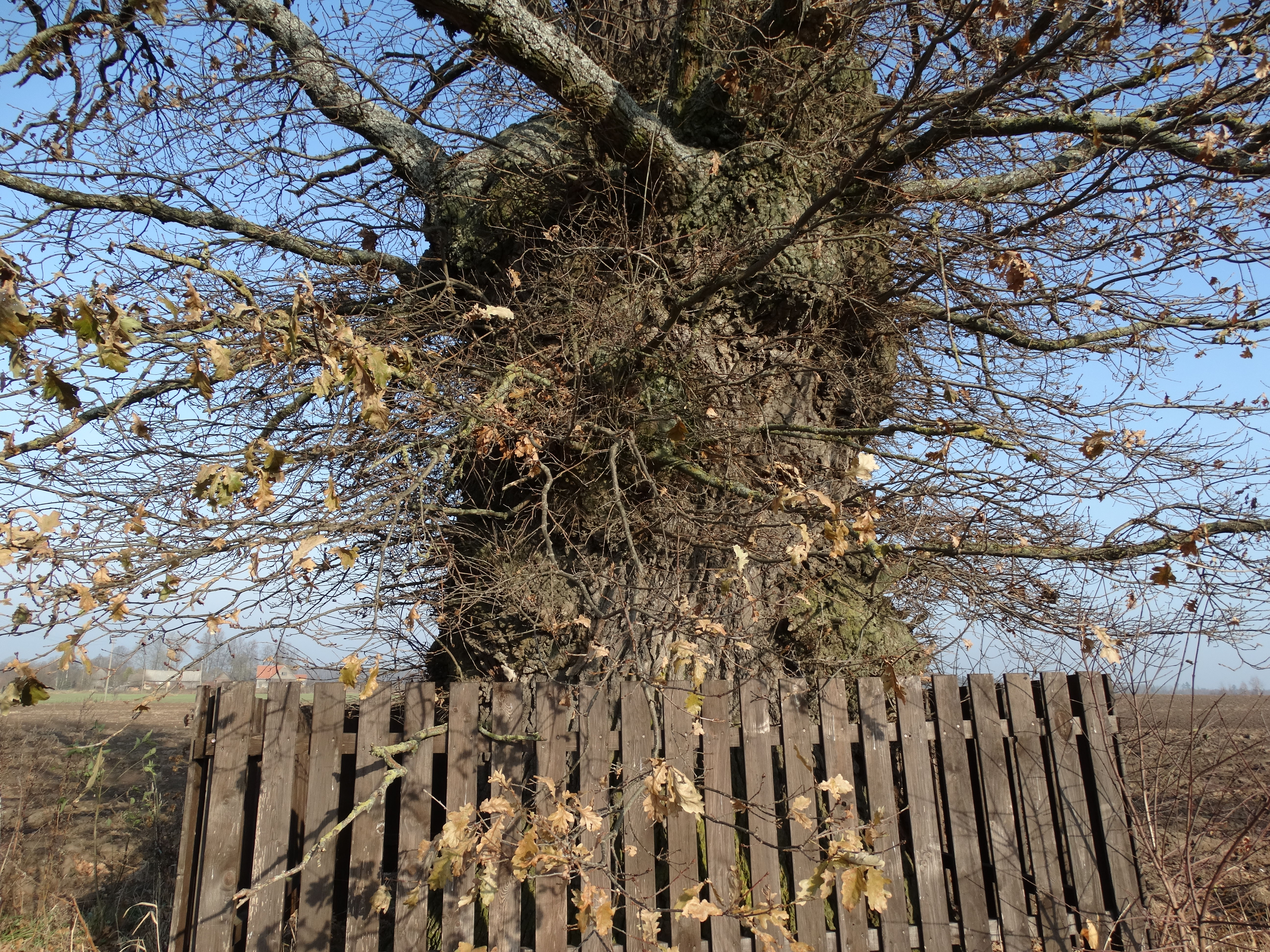 Oak tree in Moliūnai, Pasvalys District, Lithuania